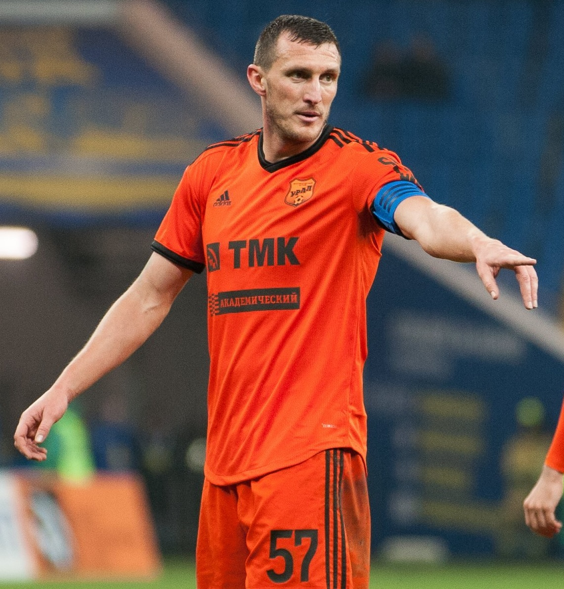 Artyom Fidler with FC Ural Yekaterinburg in a game against FC Rostov.